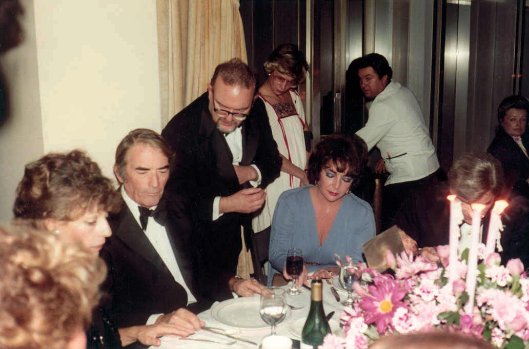 Don Thompson stands behind Gregory Peck and Elizabeth Taylor in 1981, at the party after the Filmex Tribute to Elizabeth Taylor, Dorothy Chandler Pavilion, November 1981. Taylor's then-husband, Senator John Warner, is behind the candle flames.